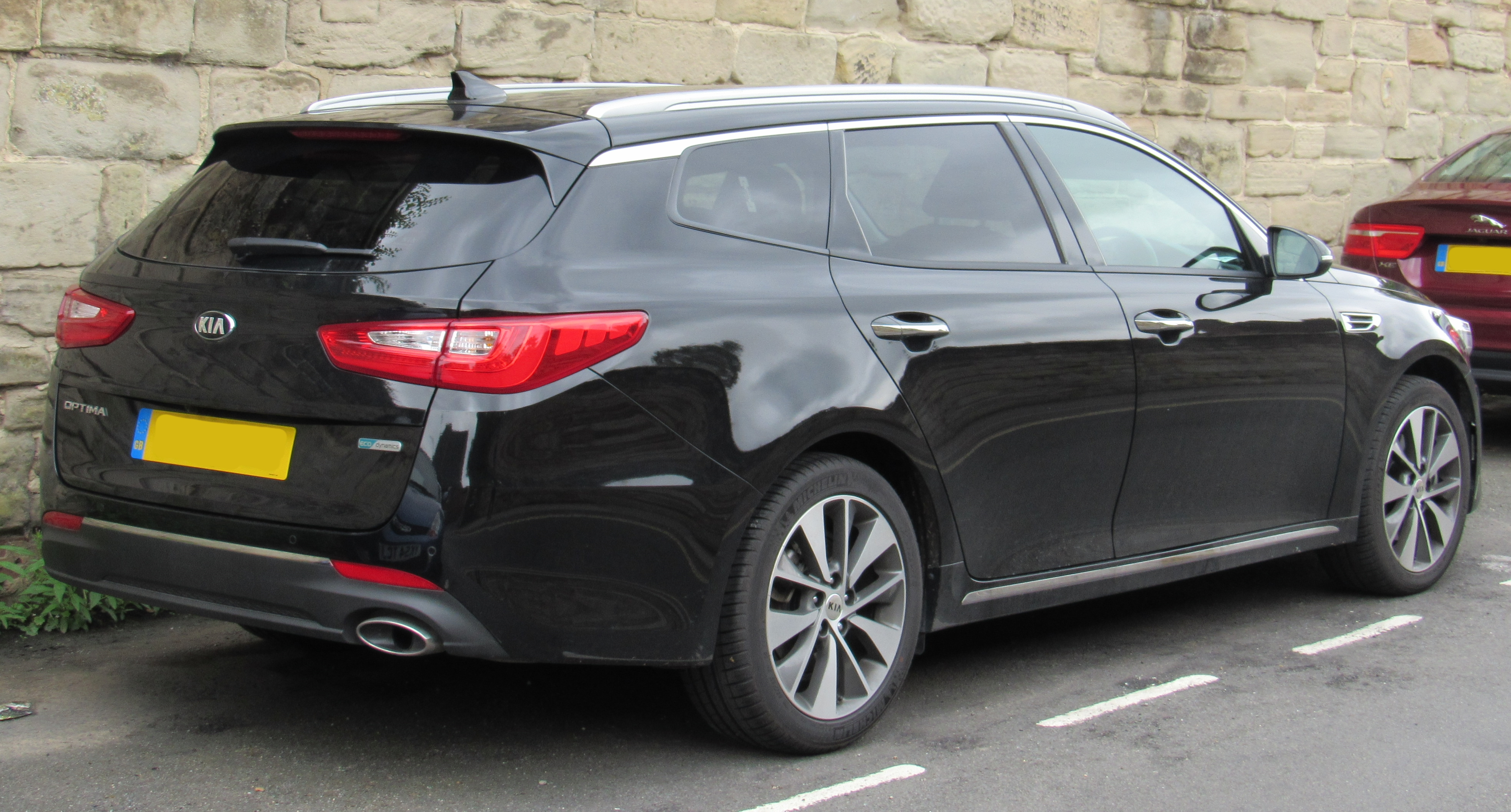 2017 Kia Optima 3 ISG CRDi S-A Sportswagon 1.7 Rear Taken in Warwick